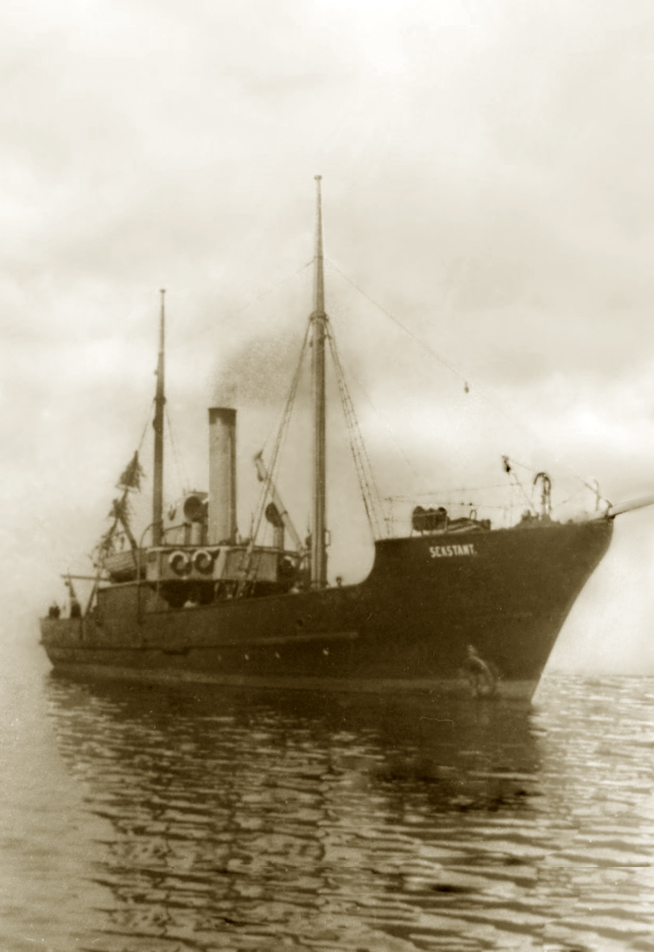 Two-masted steam and sail schooner Sextant, built in 1859 and withdrawn from service 1952